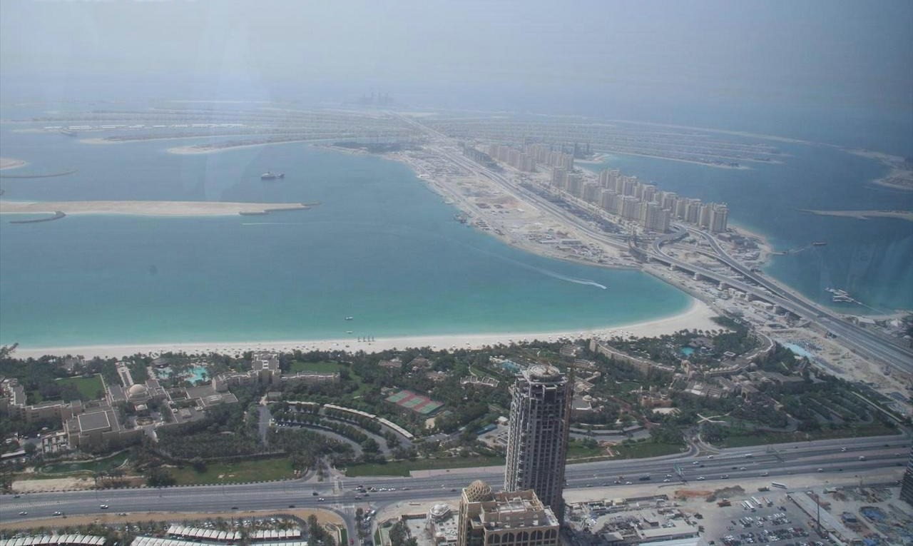 This is a photo showing an aerial view the Palm Jumeirah in Dubai, United Arab Emirates on 1 May 2007. The Al Sufouh Towers can be seen on the bottom of the image.